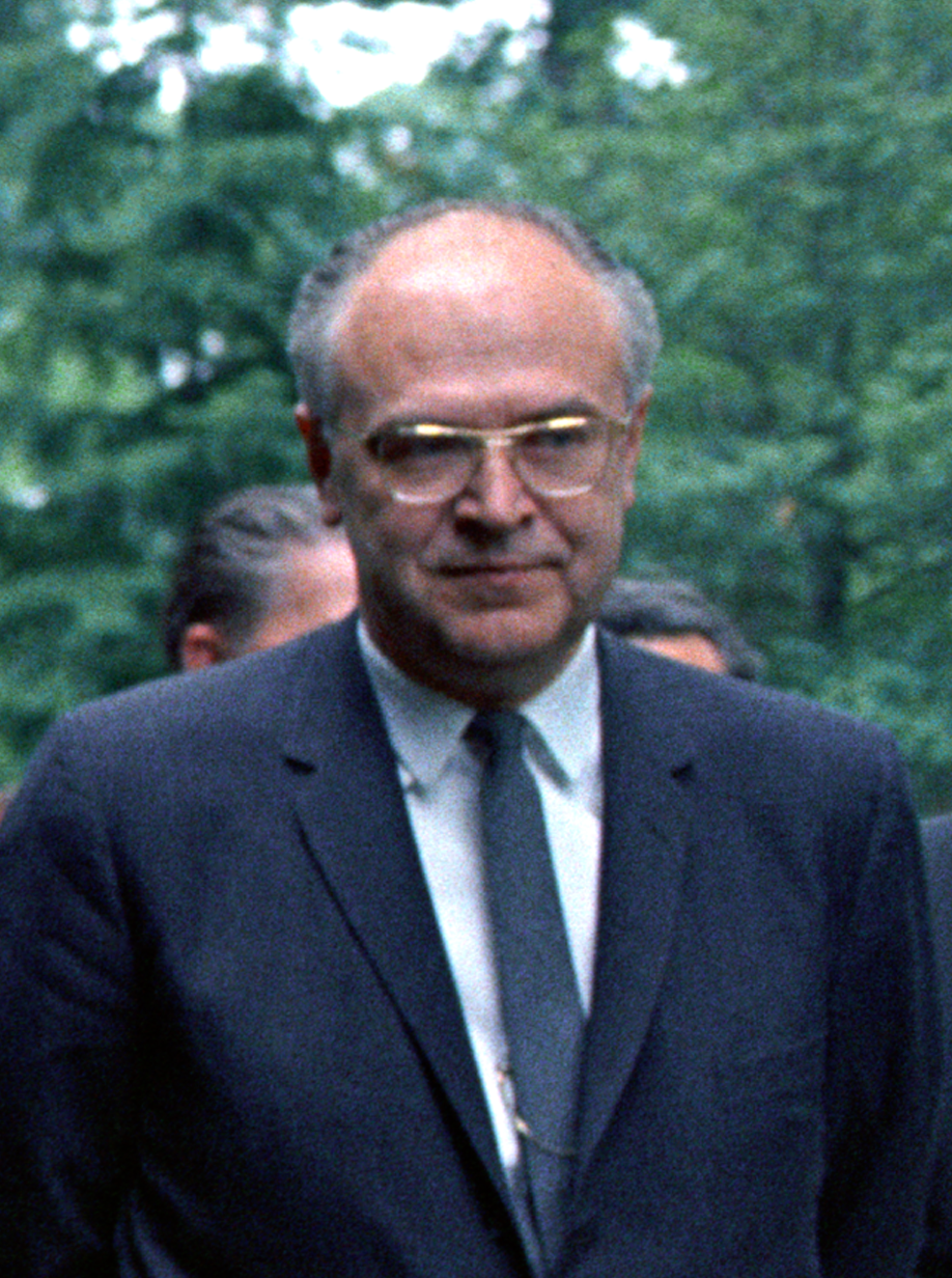 Anatoly Fyodorovich Dobrynin (Анатолий Фёдорович Добрынин), Soviet Ambassador to the United States